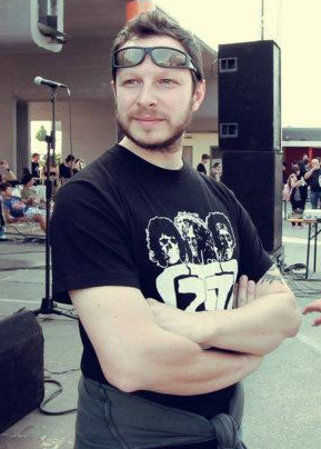 Italian music producer Pietro Foresti at the Geox Theater in Padova, Italy, June 7, 2012